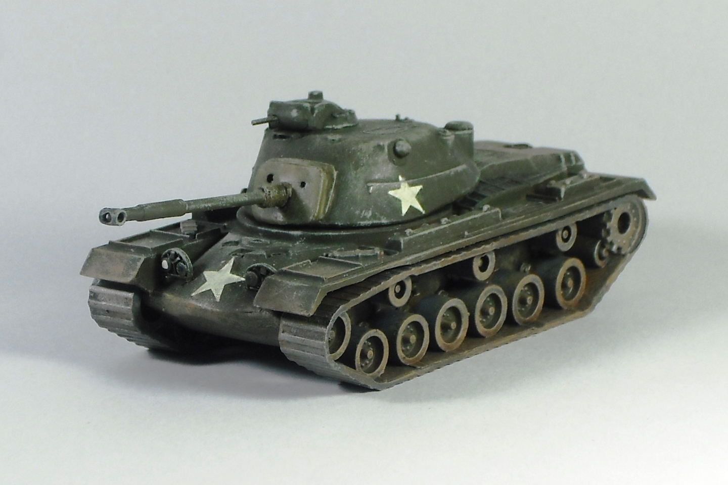 Built-up model of Midori 1/76 scale M-48